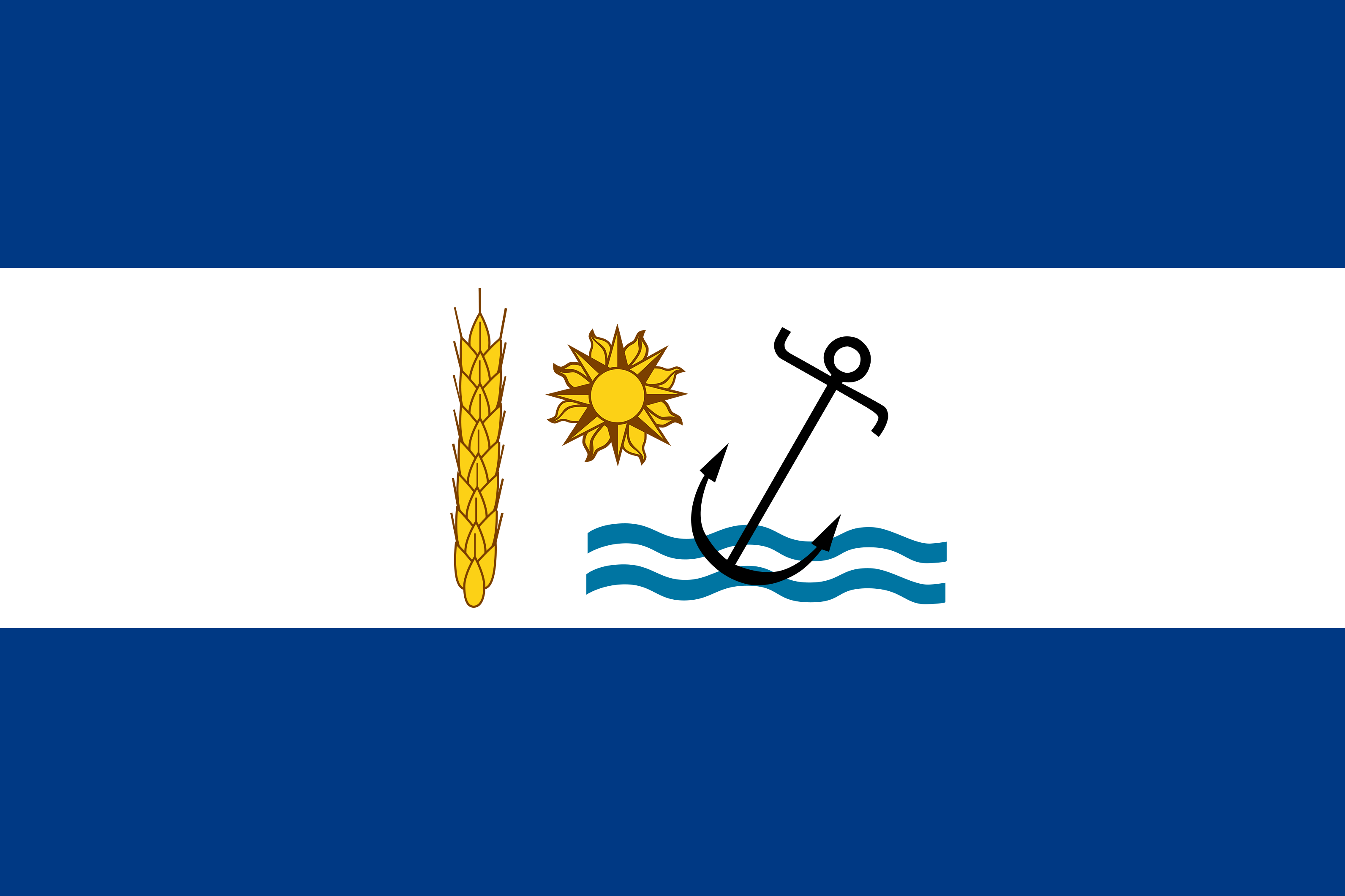 Flag of the Department of Río Negro, Uruguay Drawn by: Jordevi